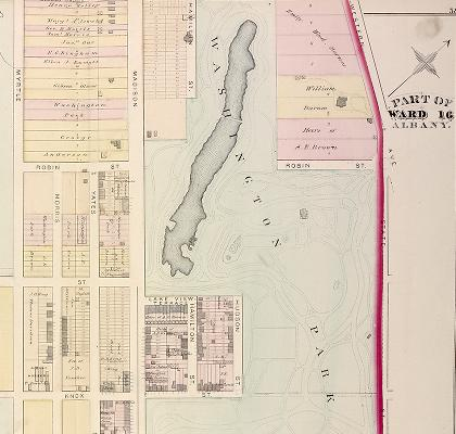 Map of Washington Park, Albany, NY in 1878